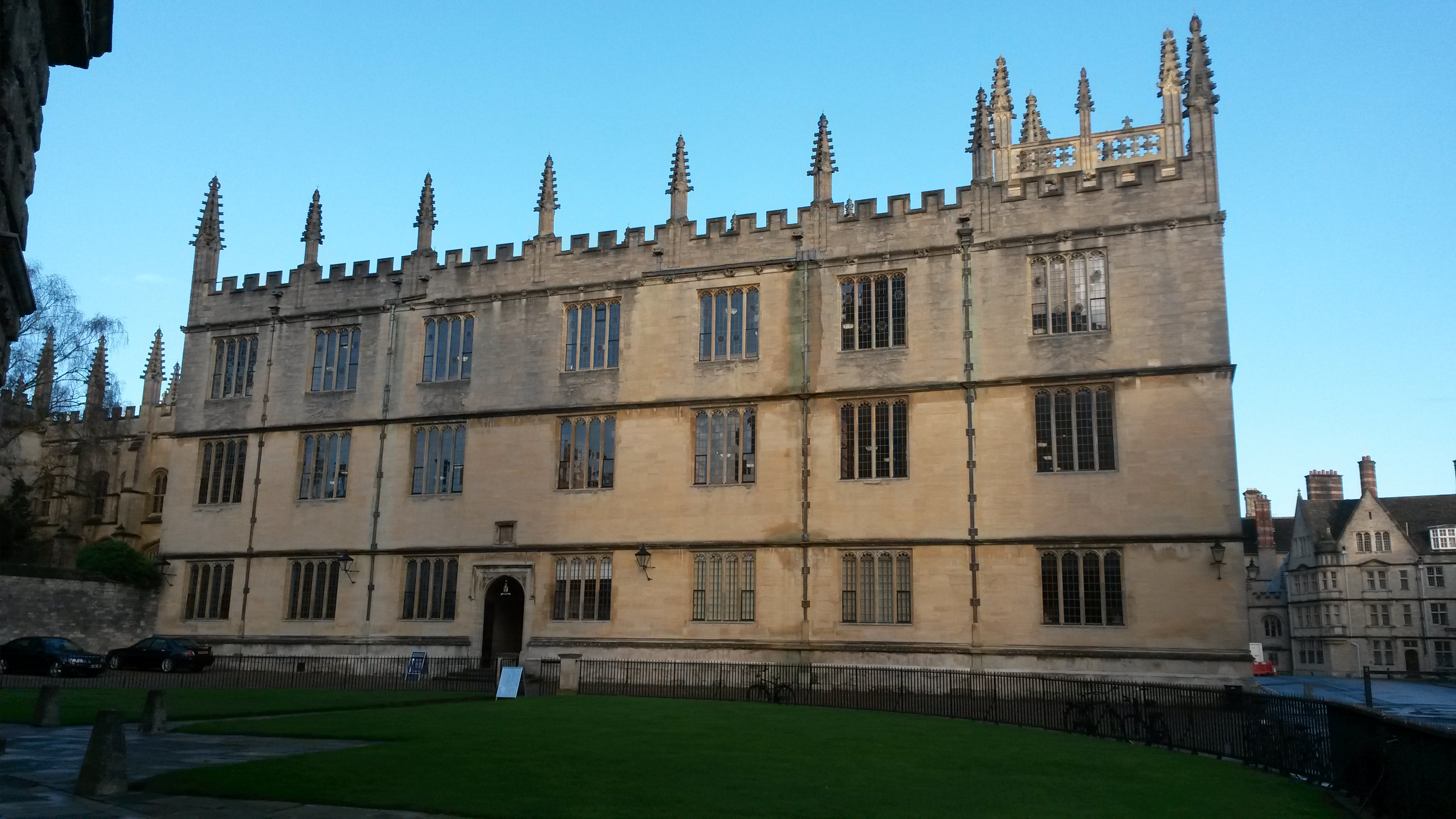 The Bodleian Library viewed from Radcliffe Square. Photograph taken from standing inside the fence surrounding the Radcliffe Camera.